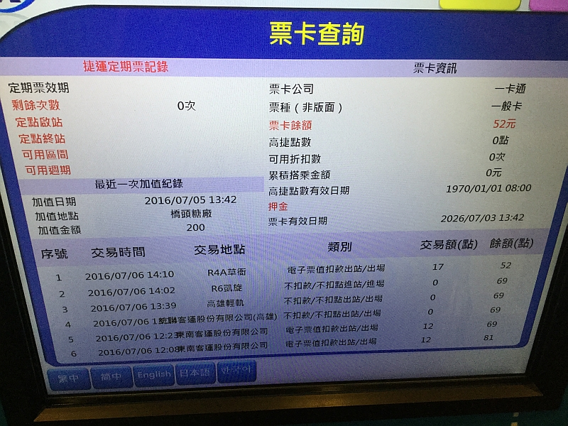 Kaohsiung MRT Caoya Station Vending/Enquiry/Add-value Machine